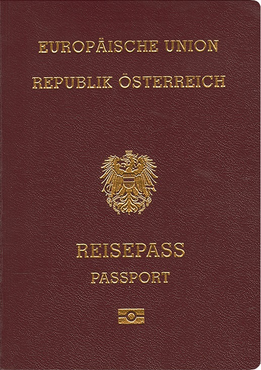 Austria passport cover